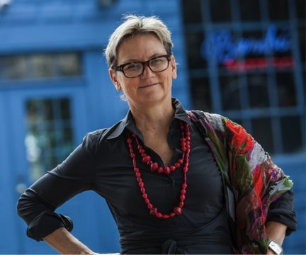 Anne De Groot